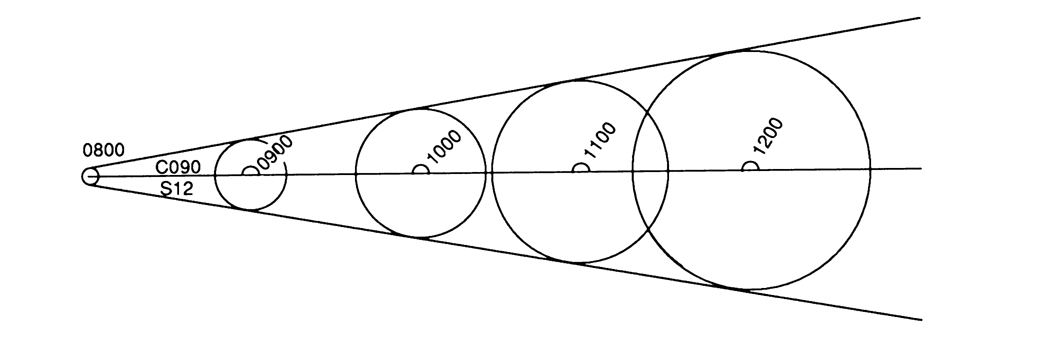 figure 705 of APN2002